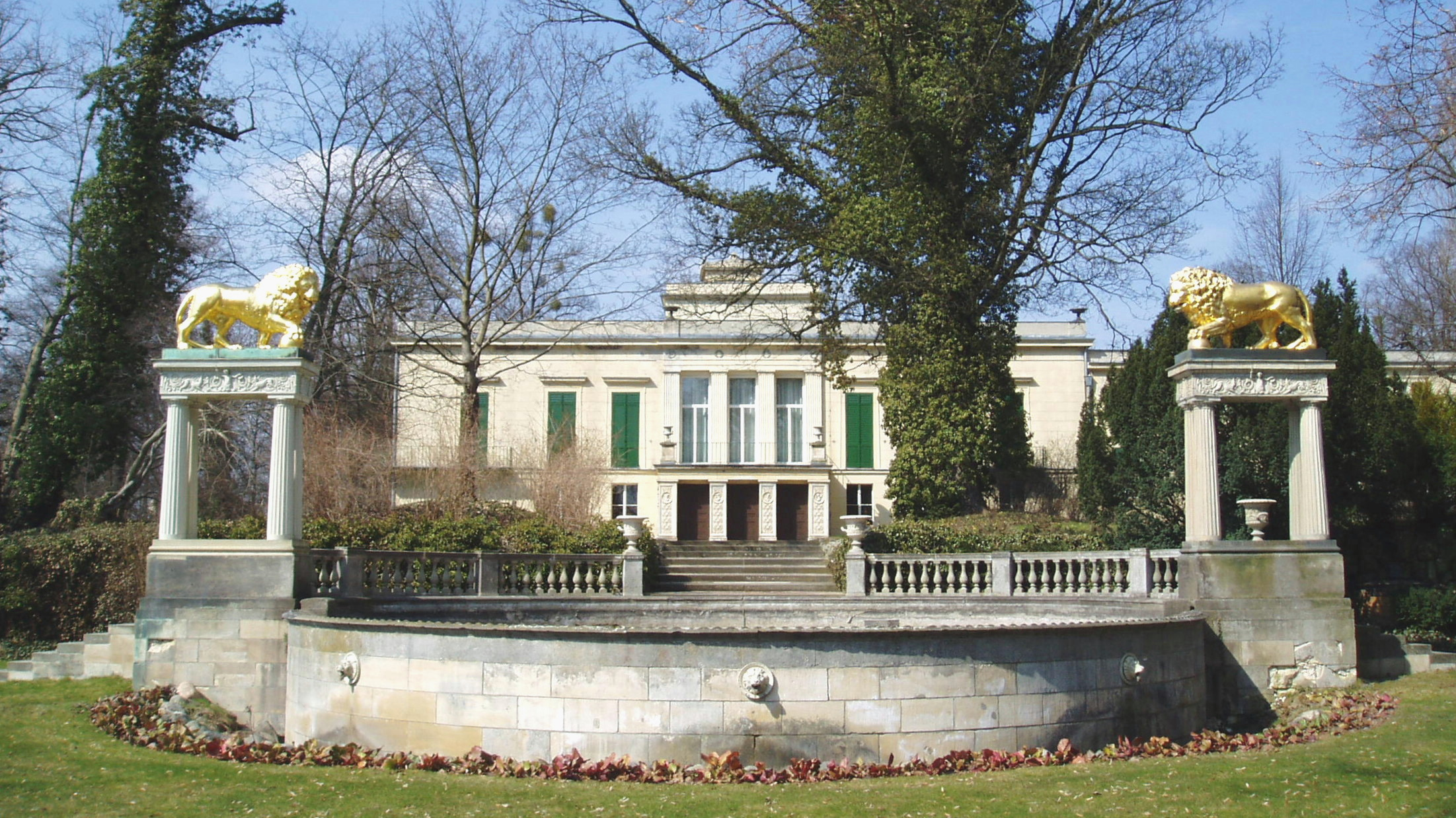 Glienicke castle (south side), Berlin, Germany